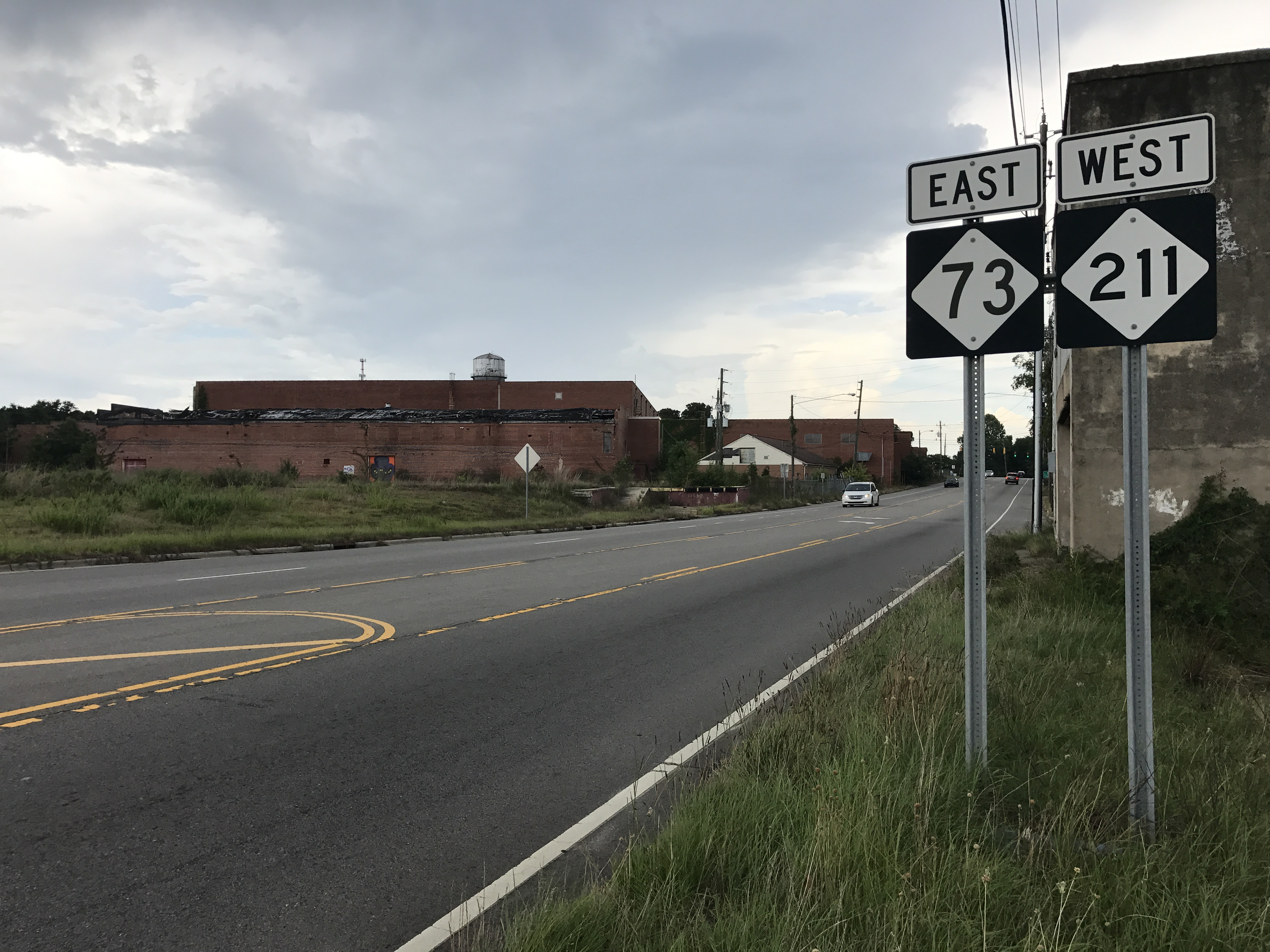 View of West End, North Carolina. The abandoned Stanley Furniture plant stands in the background